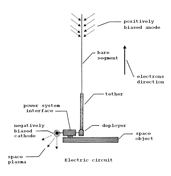 Tether Generator Circuit